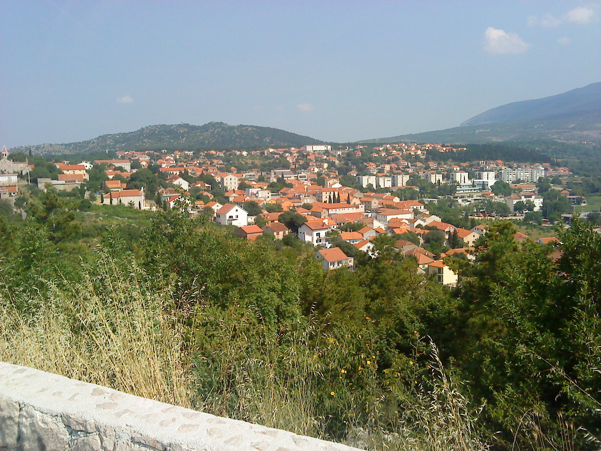 Drniš, a city in Croatia